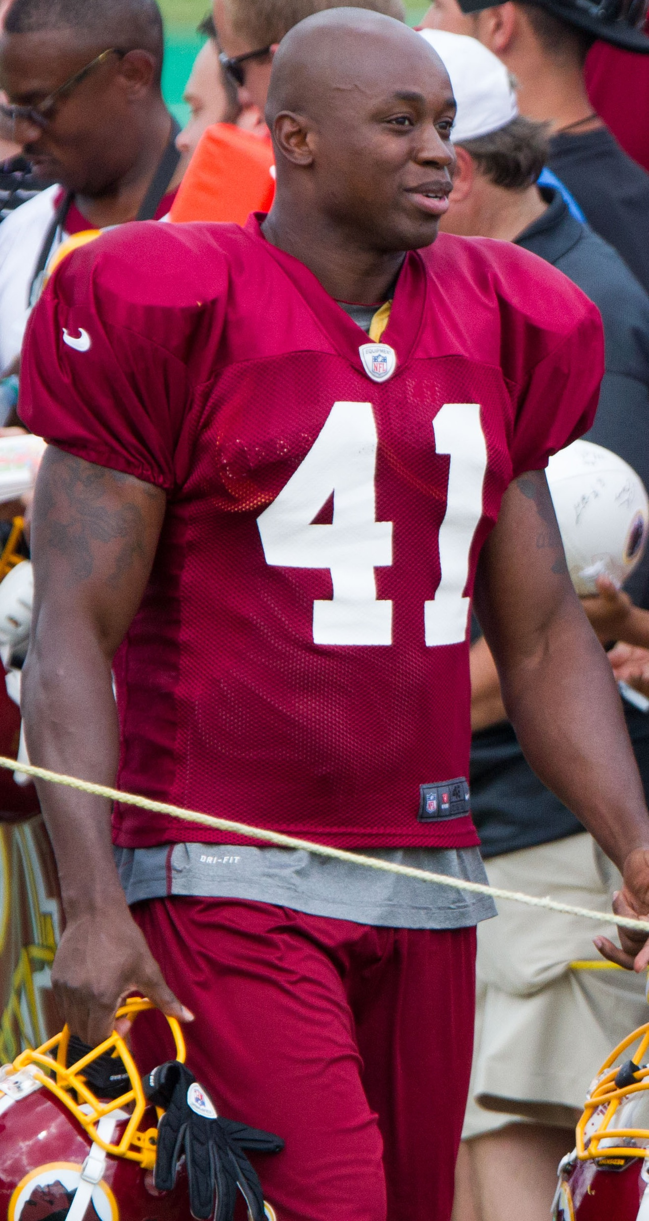 Madieu Williams at Washington Redskins Training Camp July 31, 2012